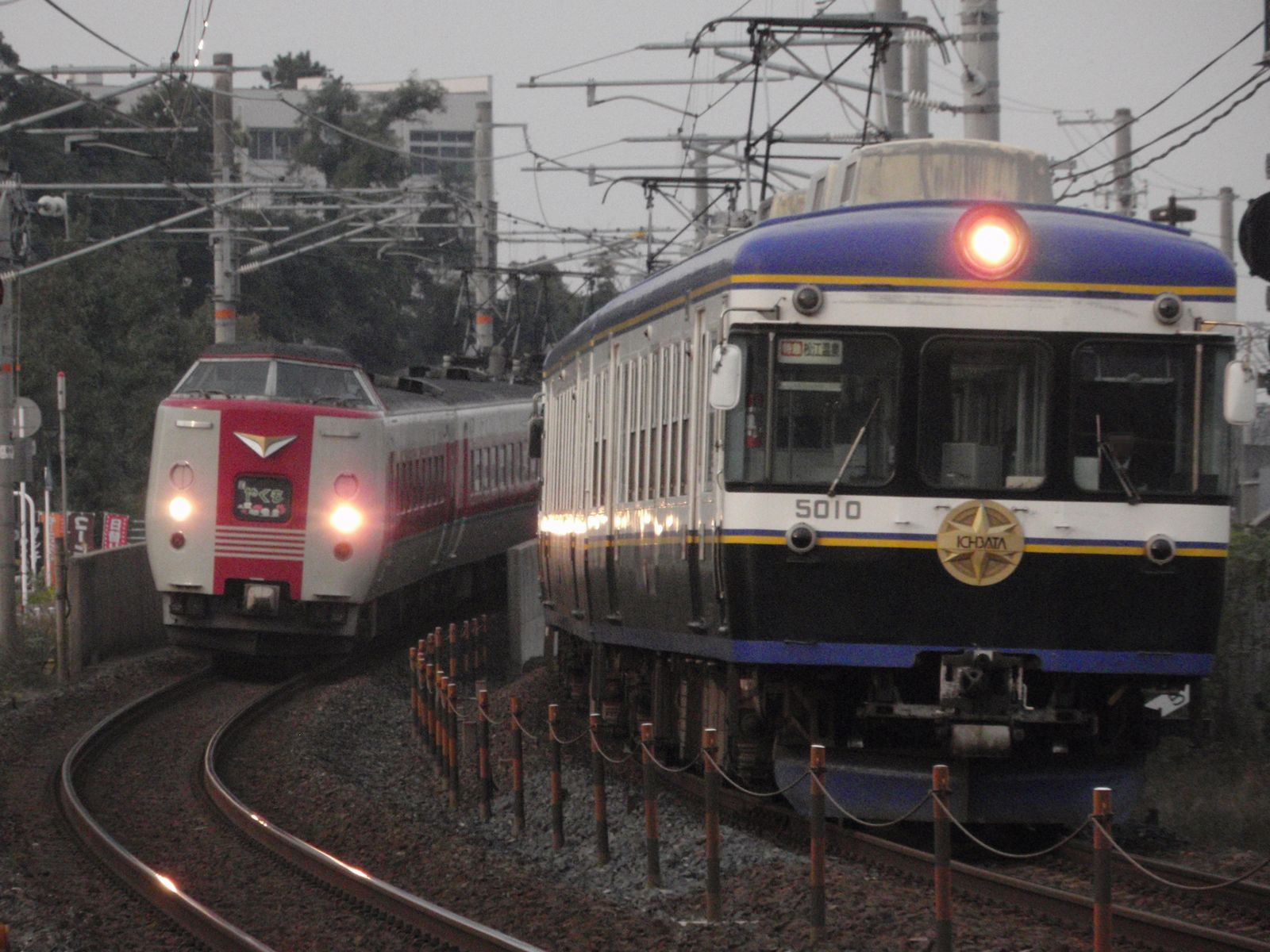 Limited Express "Super Liner" operated by Ichibata Electric Railway and Limited Express "Yakumo No.8" operated by West Japan Railway Co.